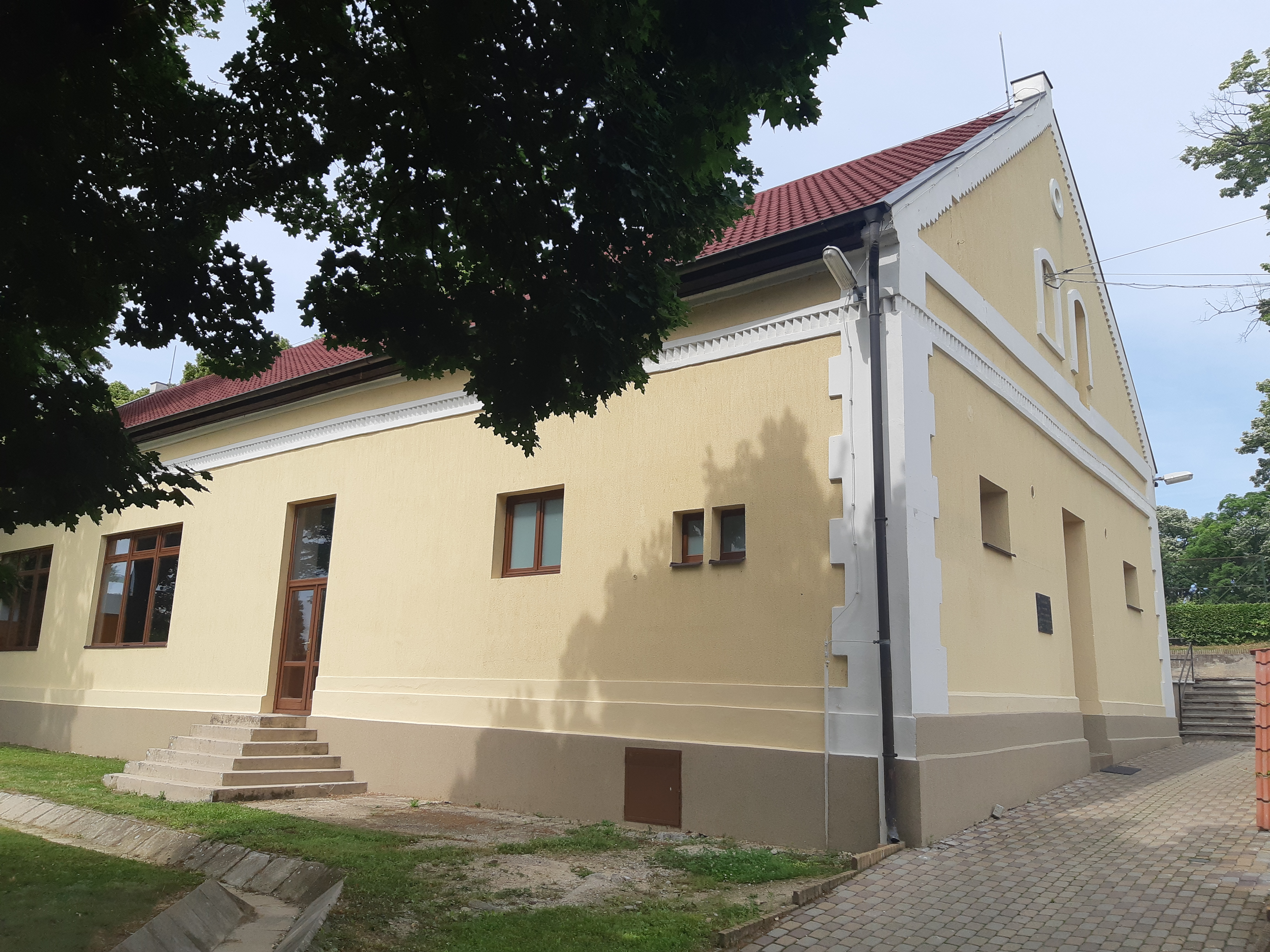 The Boros Dezső gym of Petőfi Sándor Lutheran Grammar School in Bonyhád (PSEG) after his 125th anniversary. The building is Tolna county's oldest gym.